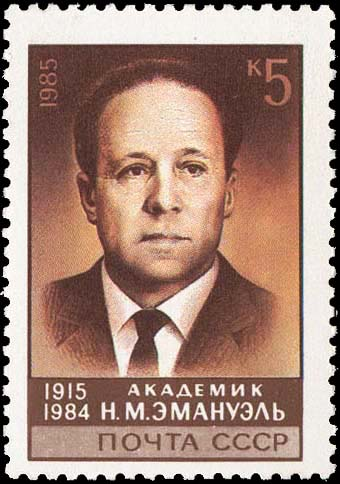 Soviet chemist Nikolay Emanuel, 1985 USSR postage stamp.